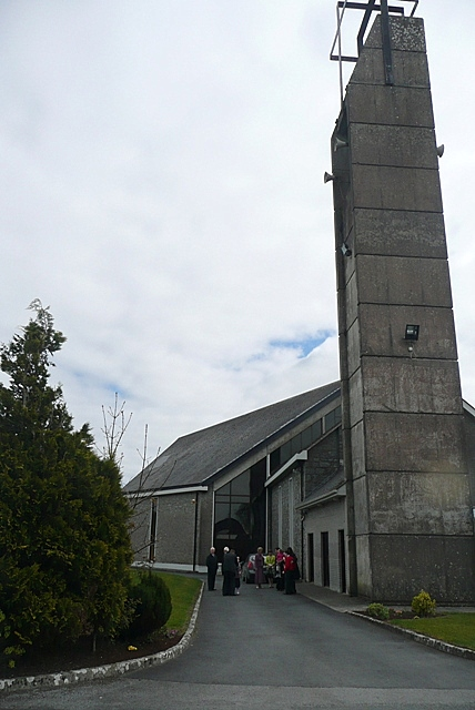 Lackagh church Dedicated to Our Lady of Knock, it had a major addition in the early 1970s. The modern tower id very tall and difficult to get into a picture without severe distortion.